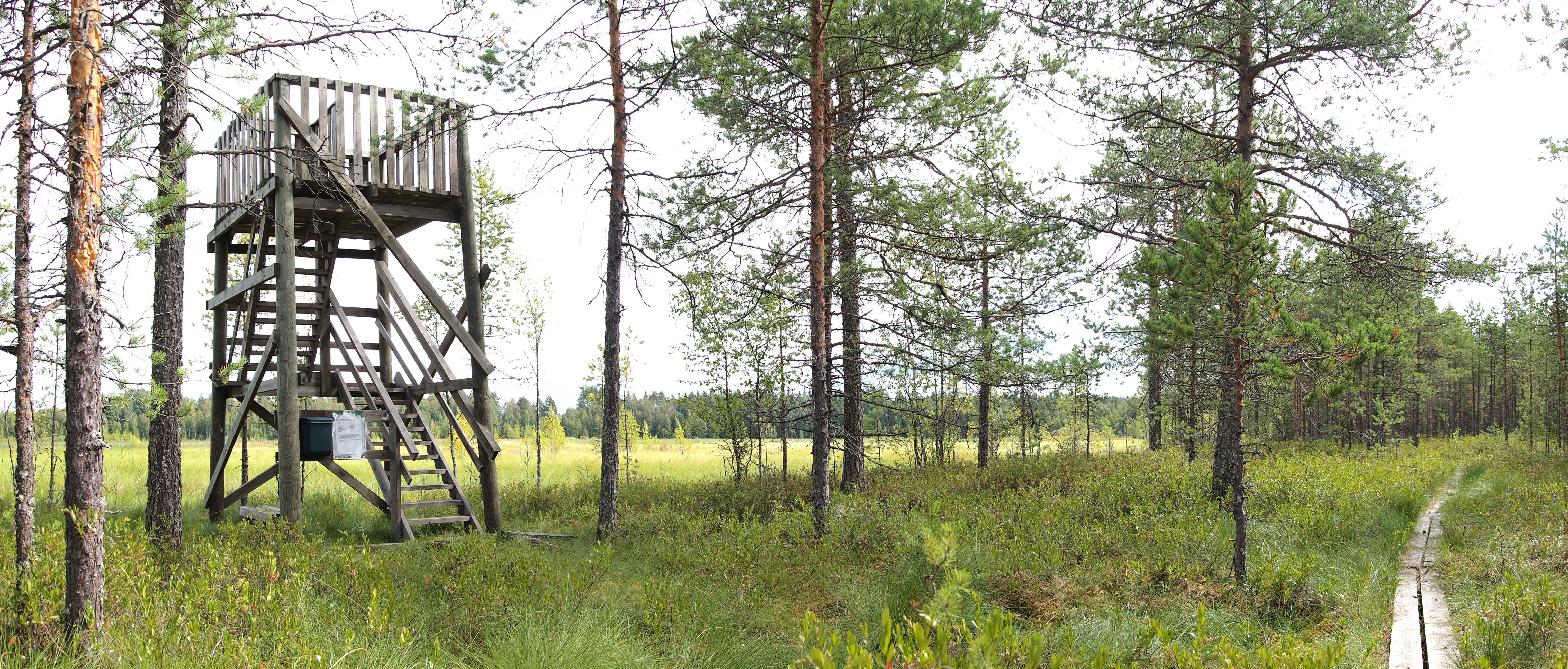 A Birdwatching tower along the Keskisenlampi nature trail in Hankasalmi.